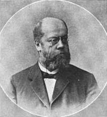 Gustav Rümelin jr. (1878–1907), German Professor of Law, University of Freiburg (Breisgau)